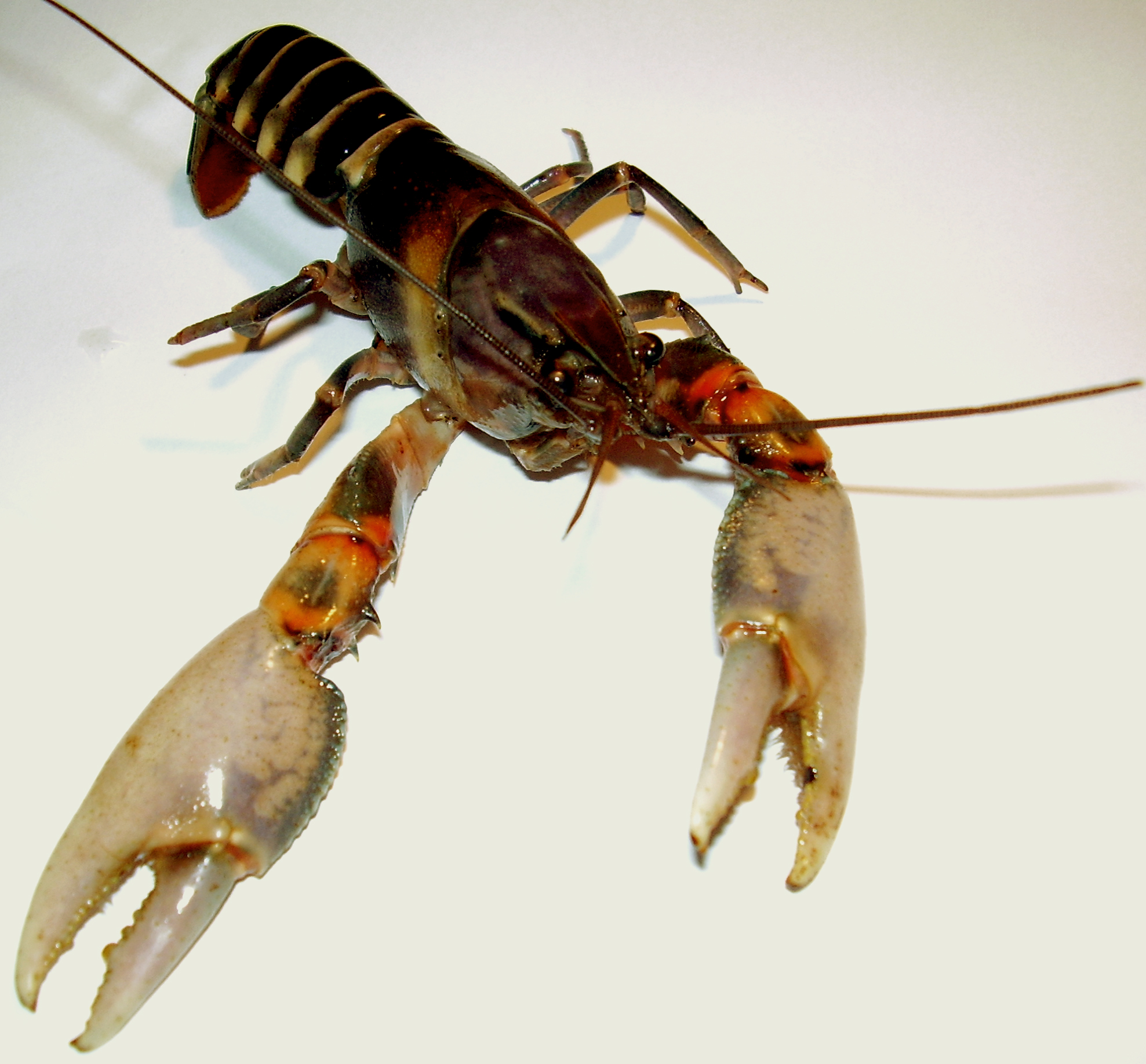 Cherax Destructor Papuanus